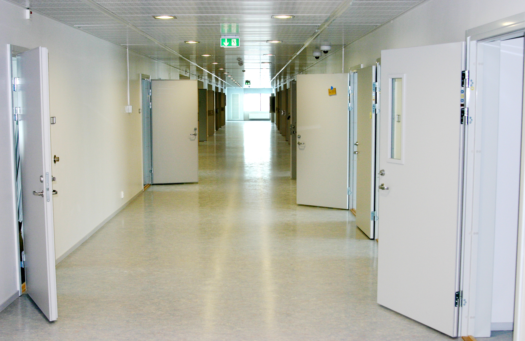 Halden prison, Norway is seen as the most humane prison in Europe.